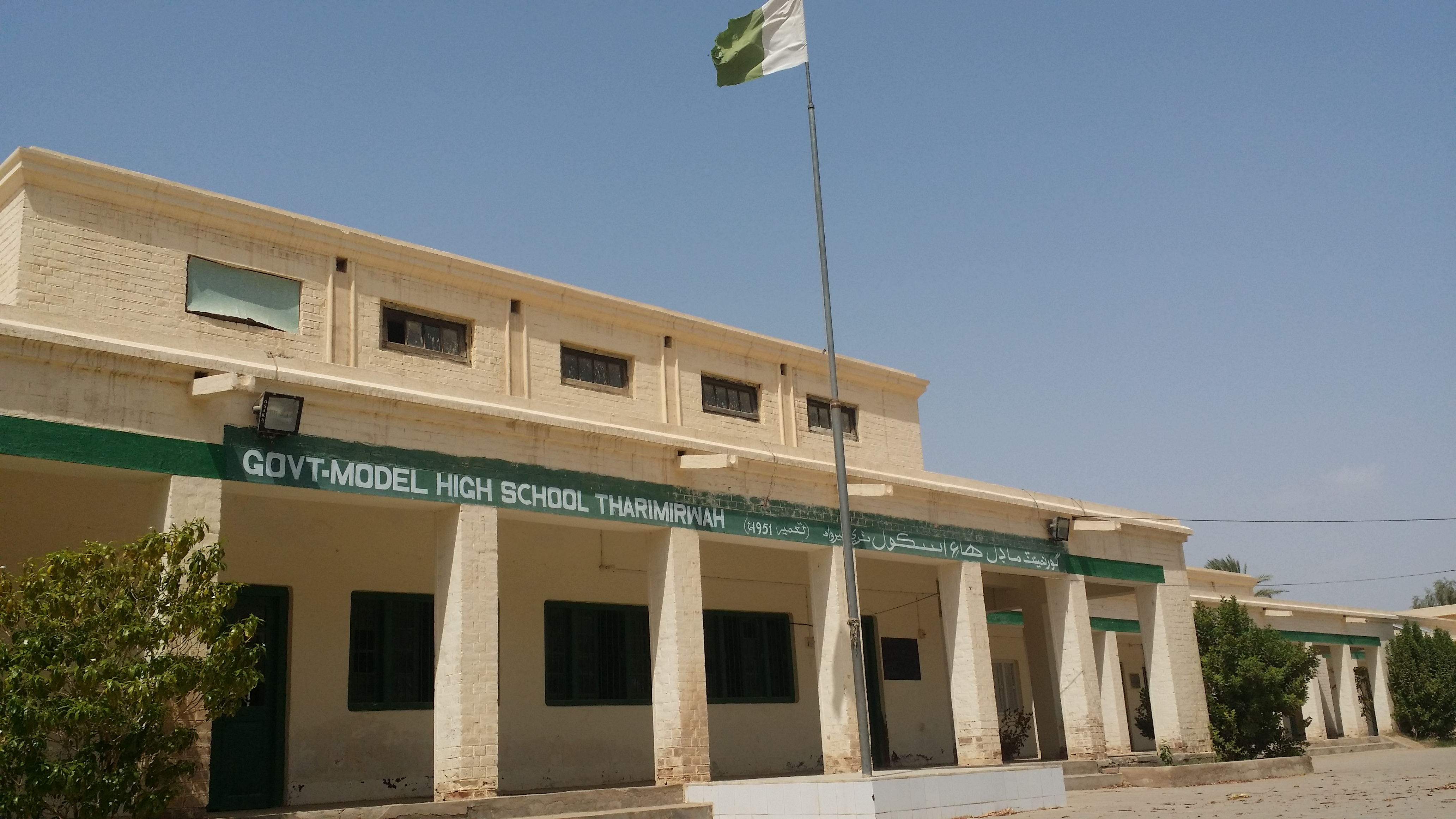 Government Boys Model High School Thari Mirwah